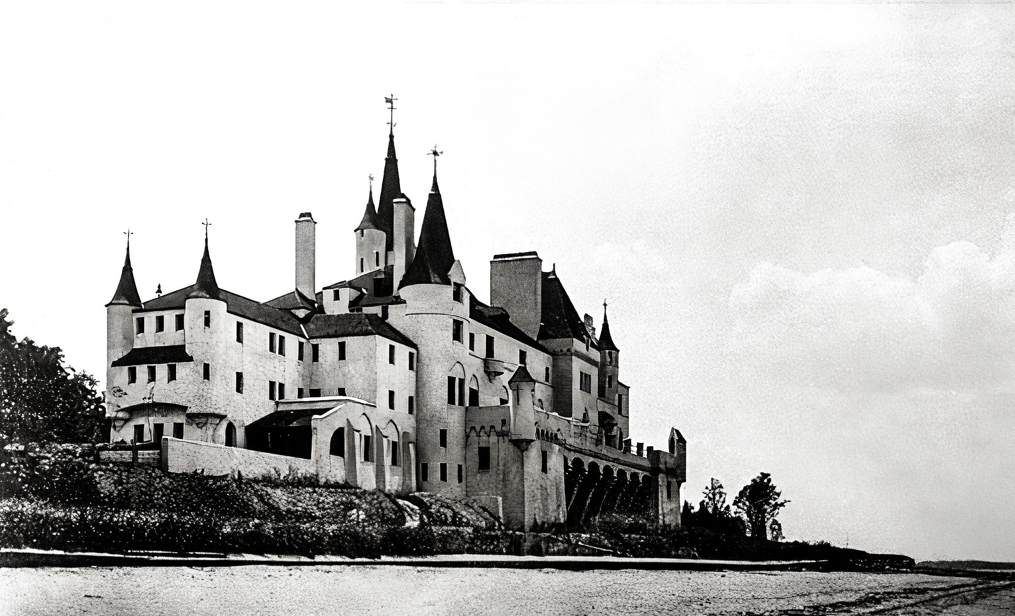 Beacon Towers, rear (beach side) elevation, in Sands Point, New York.